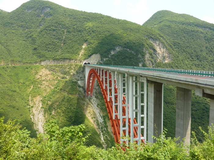 The Zhijinghe River Bridge in Hubei province, China